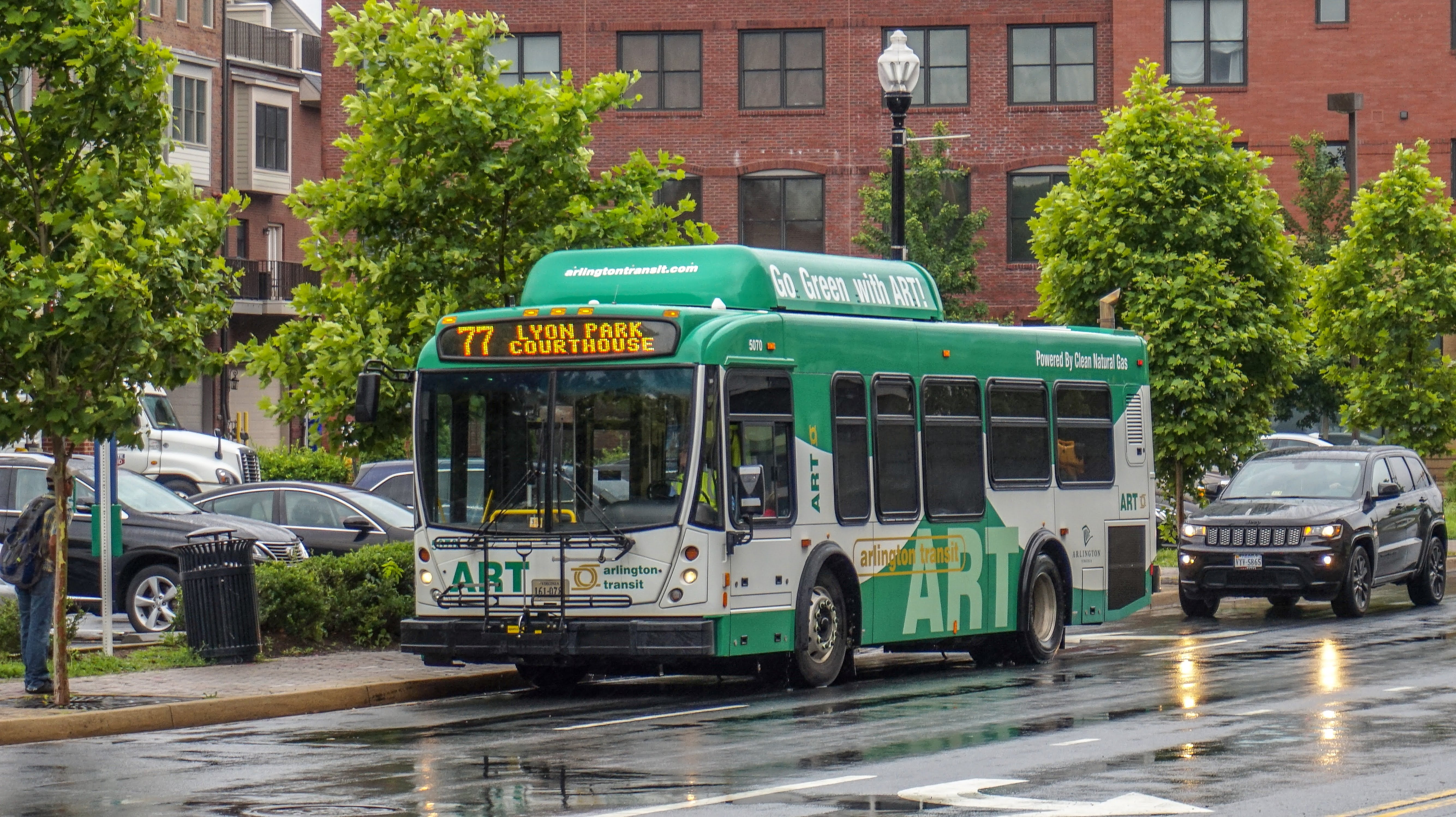 Arlington Transit ART 2010 NABI 31-LFW CNG on Walter Reed Drive